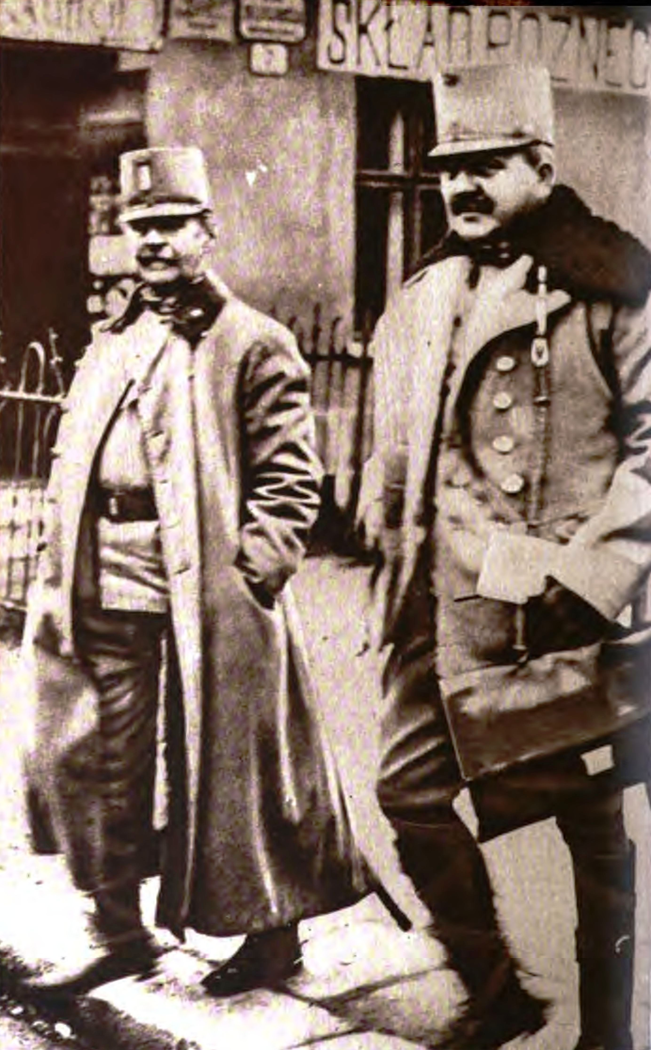 General von Krobatkin [sic] - Chief of the Austrian General Staff. From The New York Times Current History of the European War.